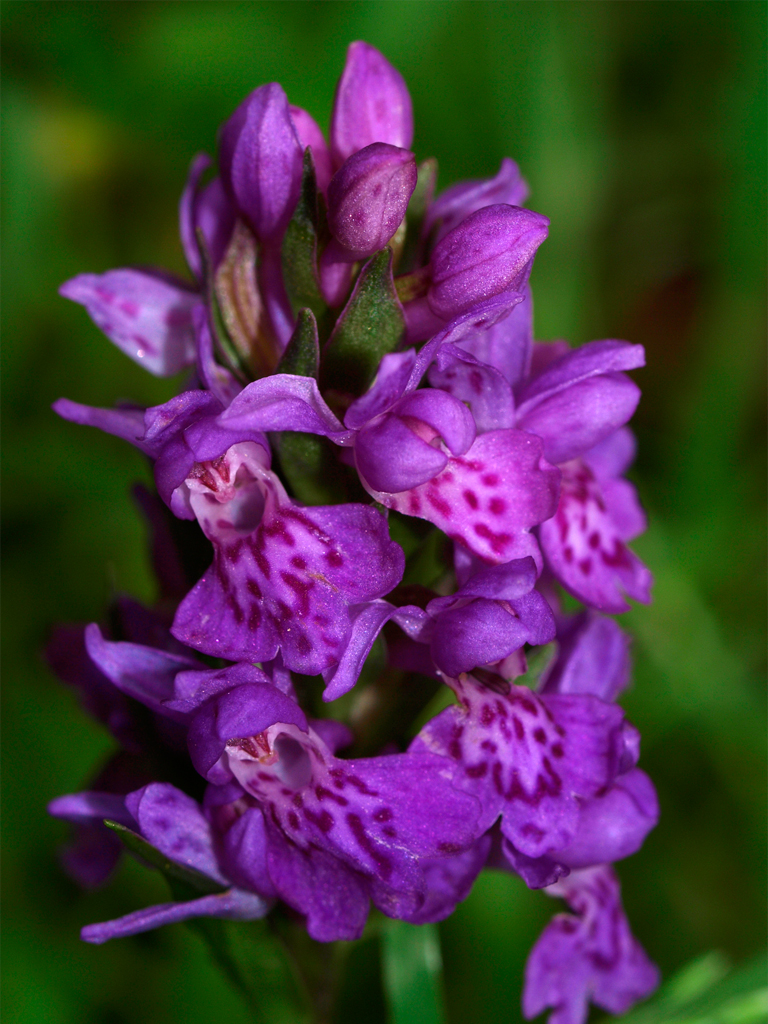 Northern Marsh Orchid Dactylorhiza purpurella 6-18-08